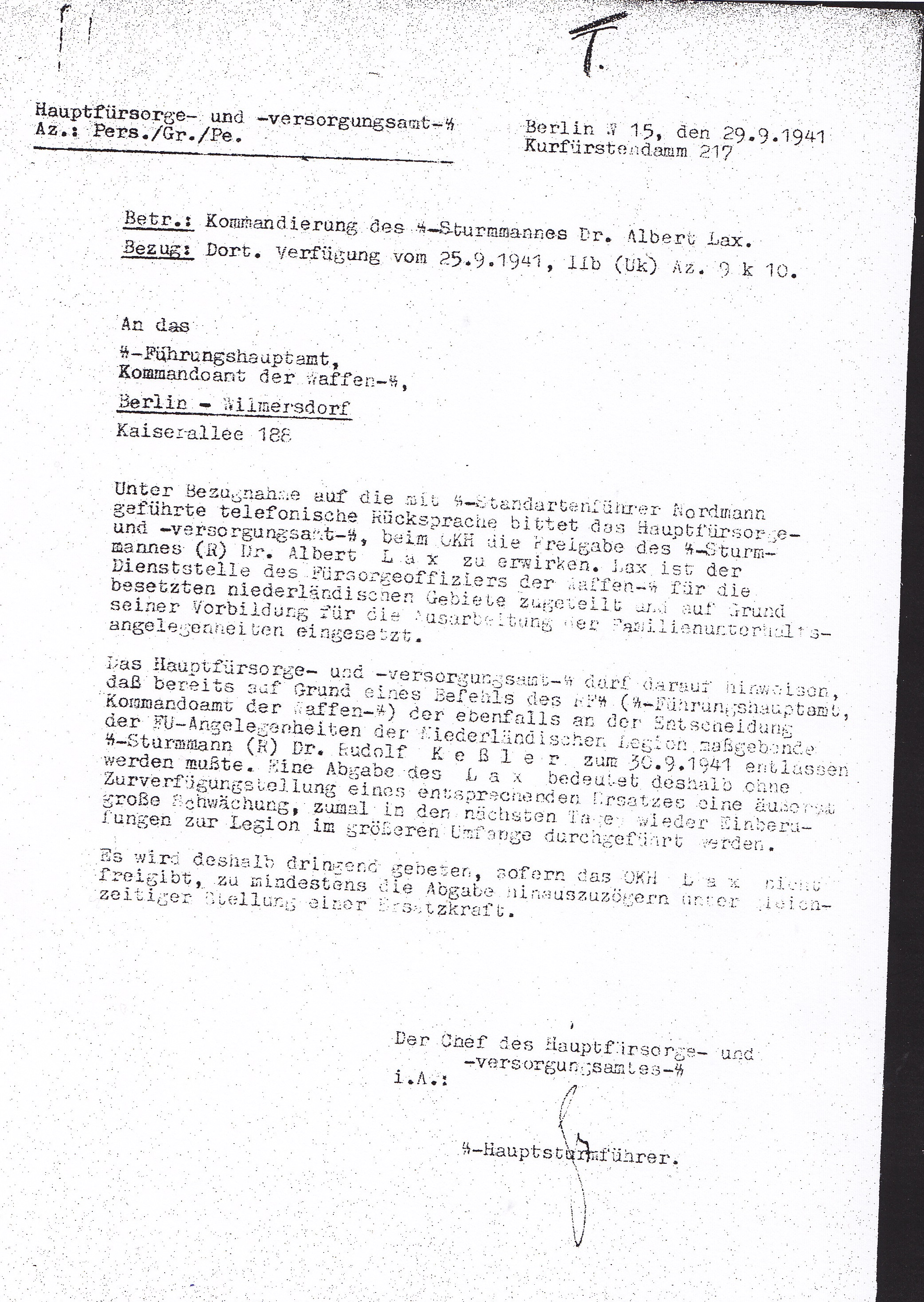 Extract from the SS service record of Albert Lax, microfiche copy on file with the SS Records Cabinets, U.S. National Archives, College Park, Maryland